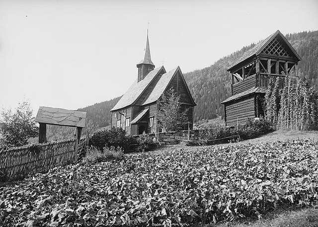 Lomen stave church